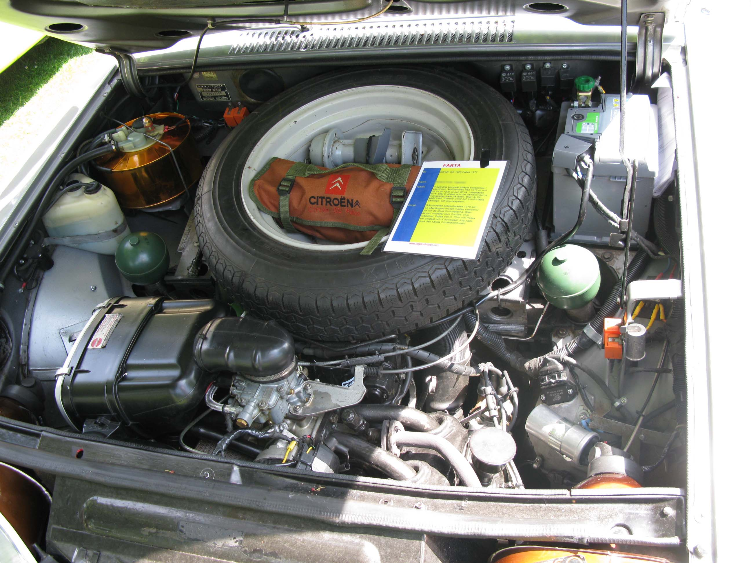 Citroën GS engine bay.Event: Nostalgia festival, Ronneby 2012